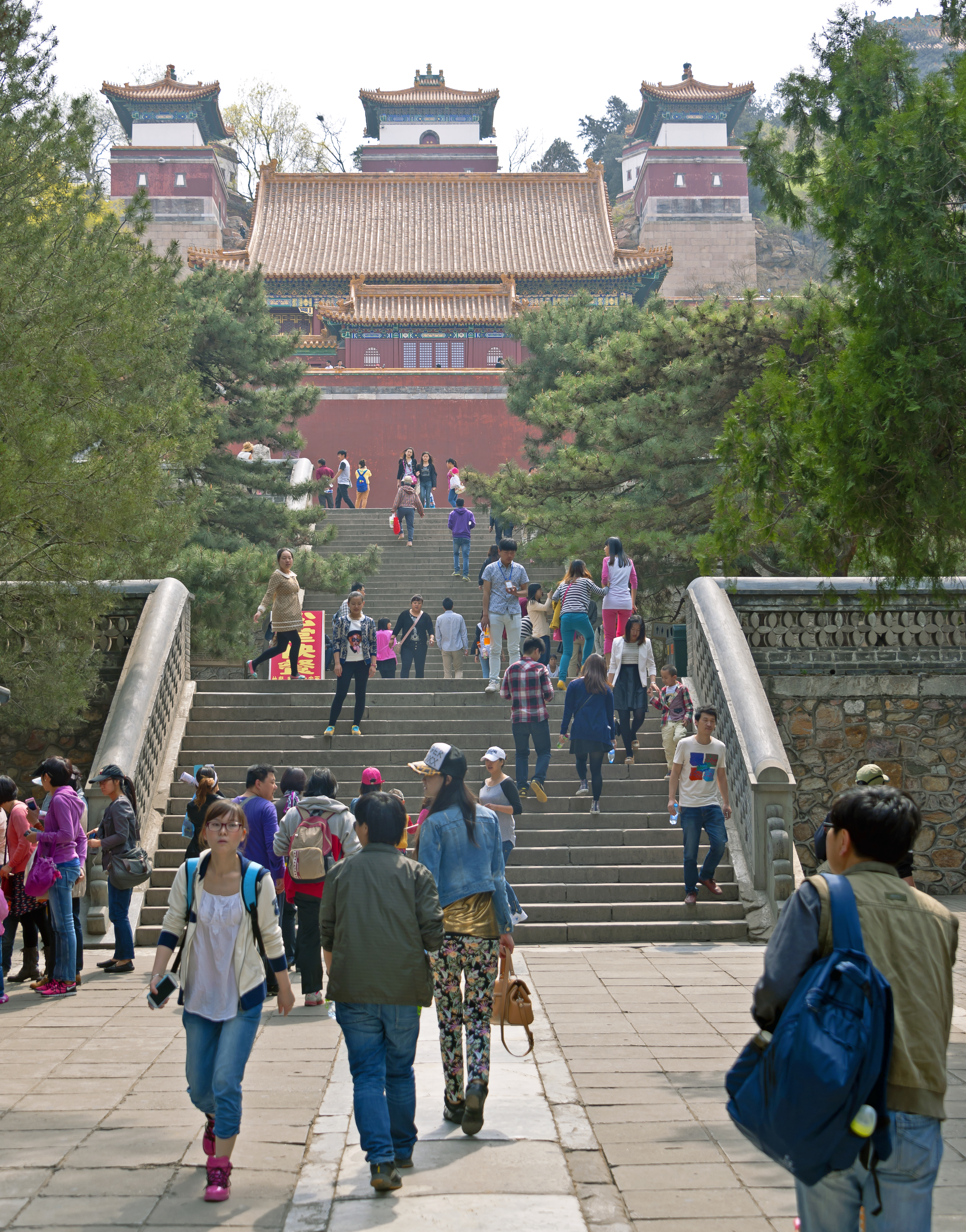 Tourists climbing up the stairs to the Four Great Regions at the Summer Palace, Beijing